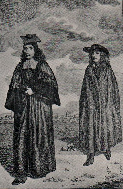 1674 engraving of a Proctor of the University of Oxford. From Habitus Academicorum, attributed to David Loggan.